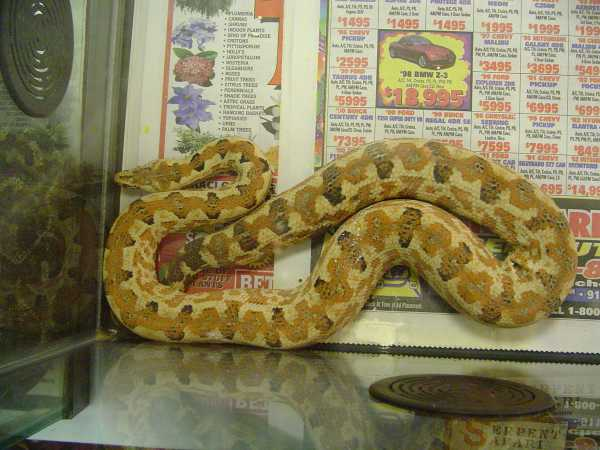 Photographer: User:Dawson